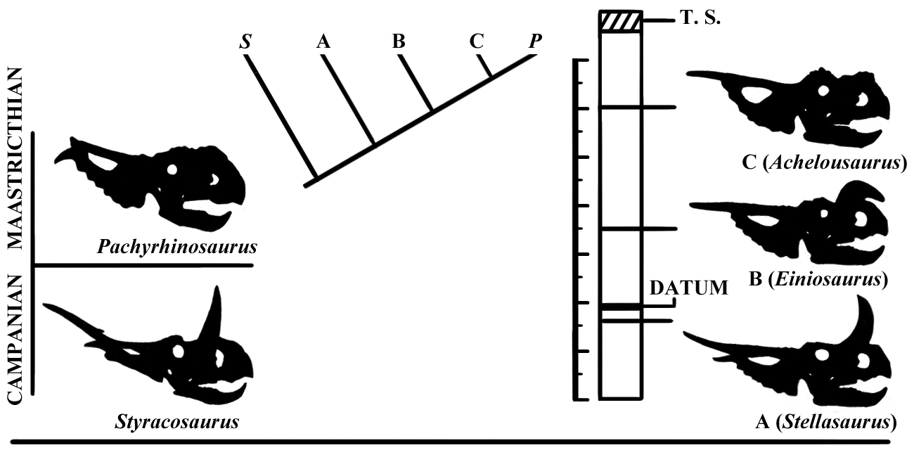 Anagenetic evolution of centrosaurine dinosaurs as proposed by Horner, Varrichio and Goodwin, 1992.